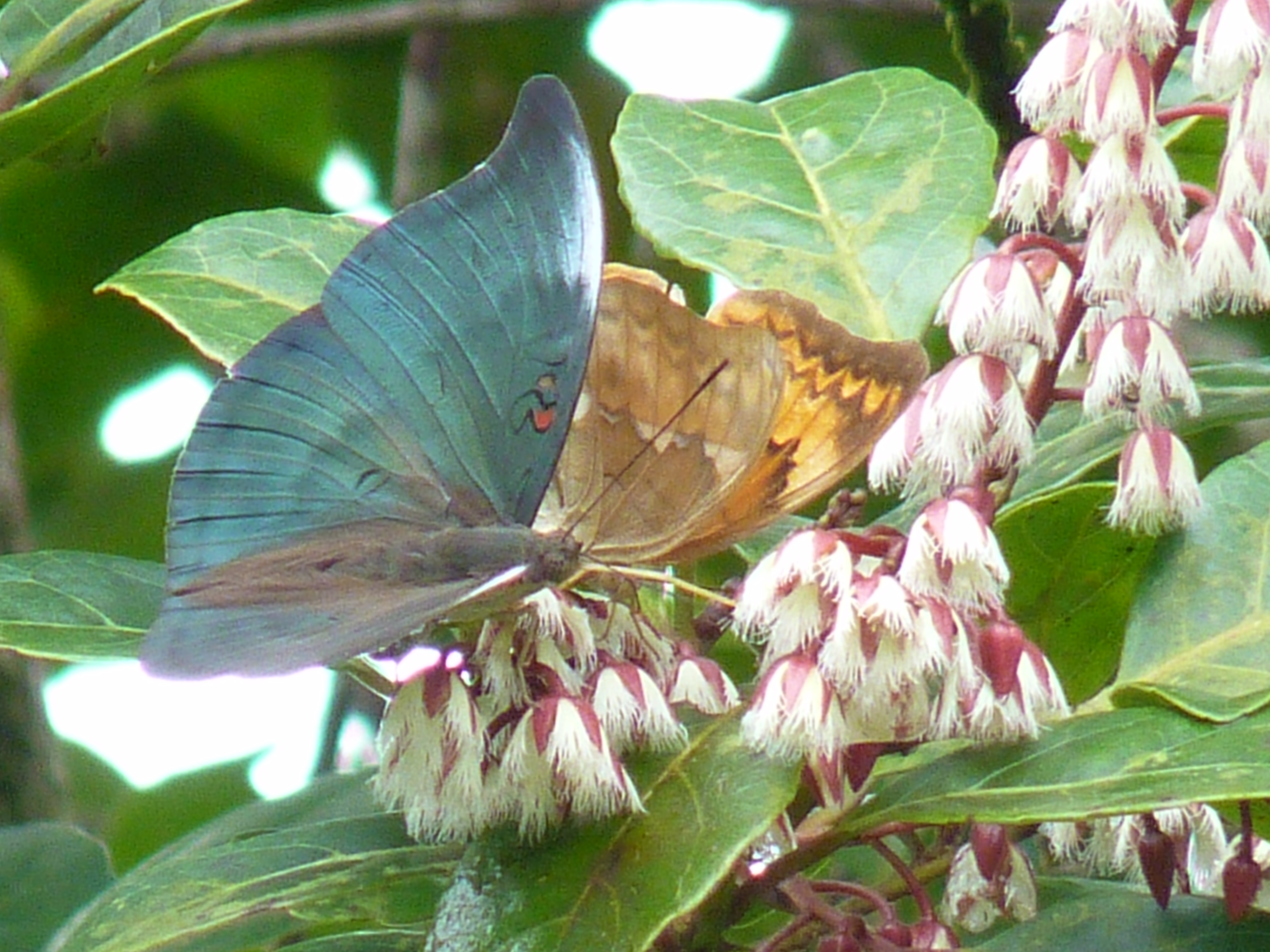 shot at kudremukha national park